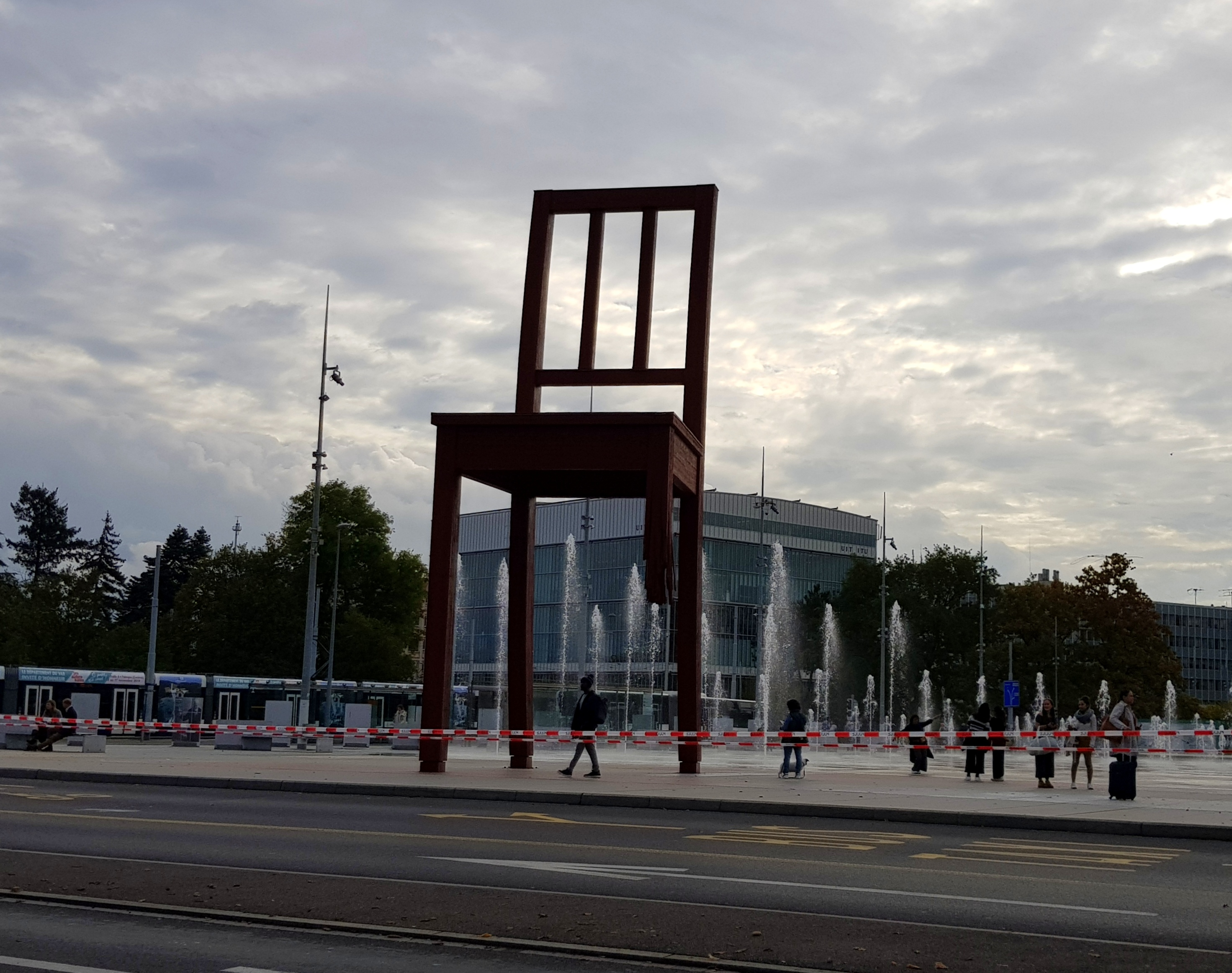 Broken Chair wooden sculpture